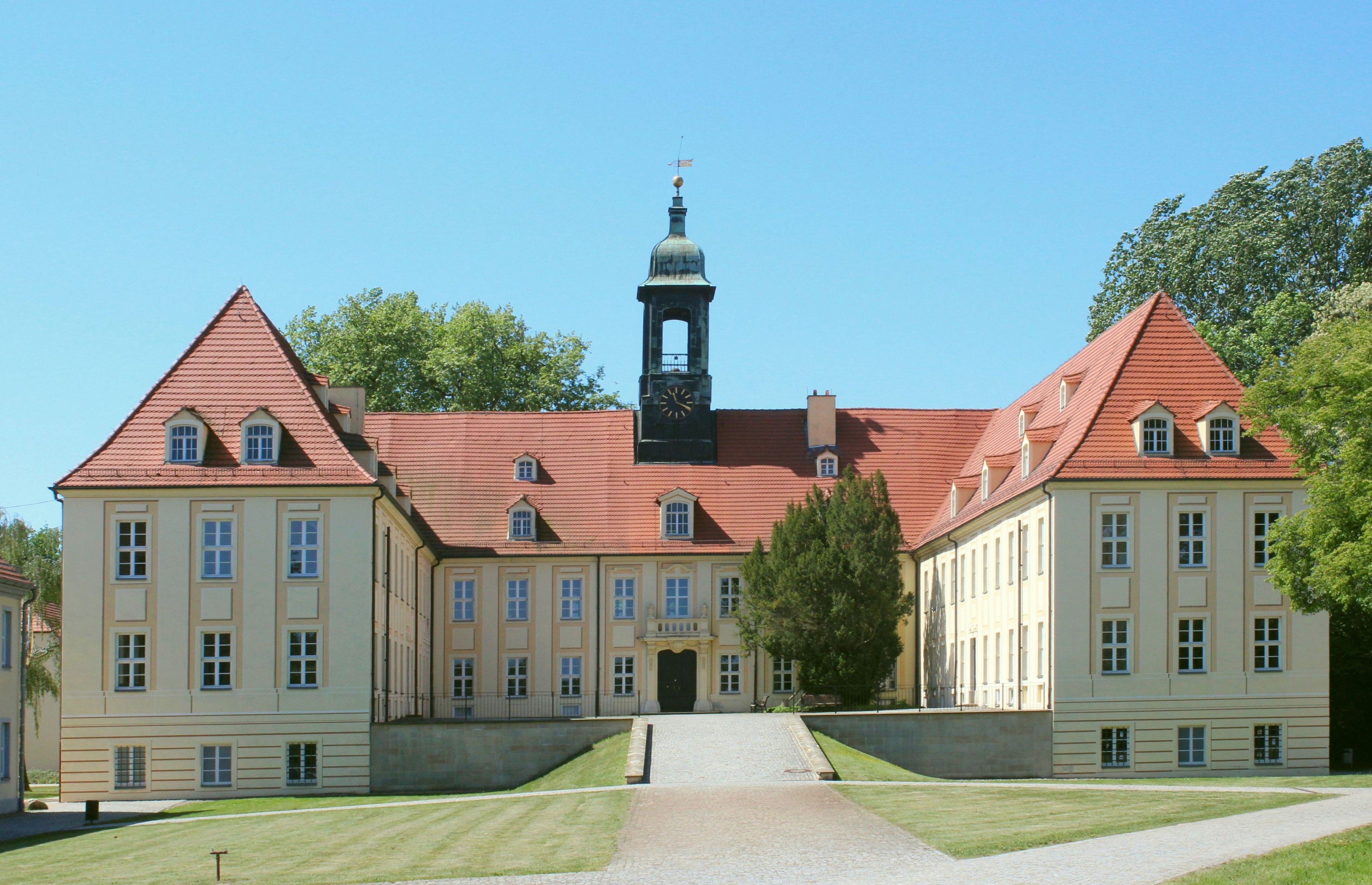 The castle of Elsterwerda.